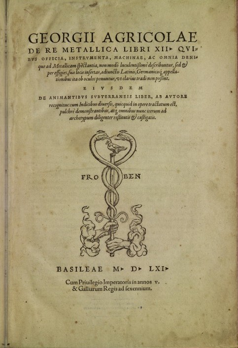 Page from De Re Metallica